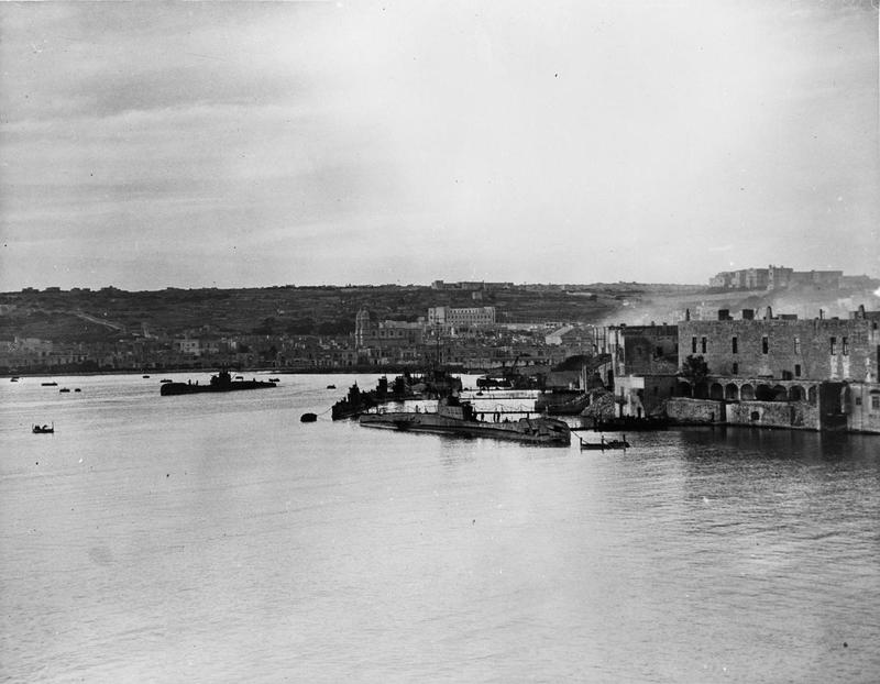 British Submarine Base at Malta. 26, 27 and 28 January 1943, Malta, HMS Talbot, the British Submarine Base at Malta. General view of HMS TALBOT, submarine base at Malta.